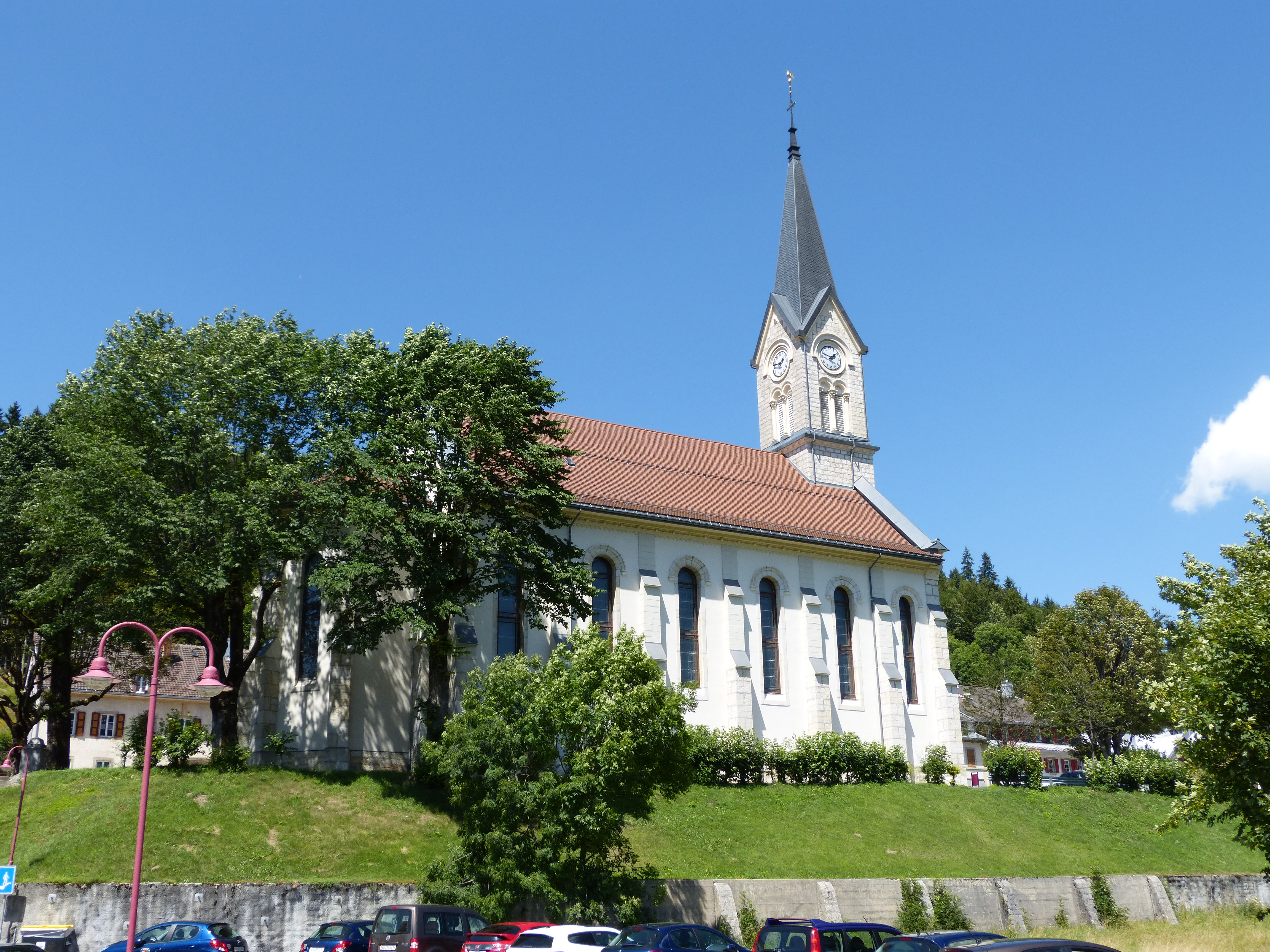 Temple in Le Sentier.